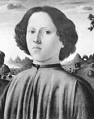 Goffredo Borgia, figlio del papa Alessandro VI